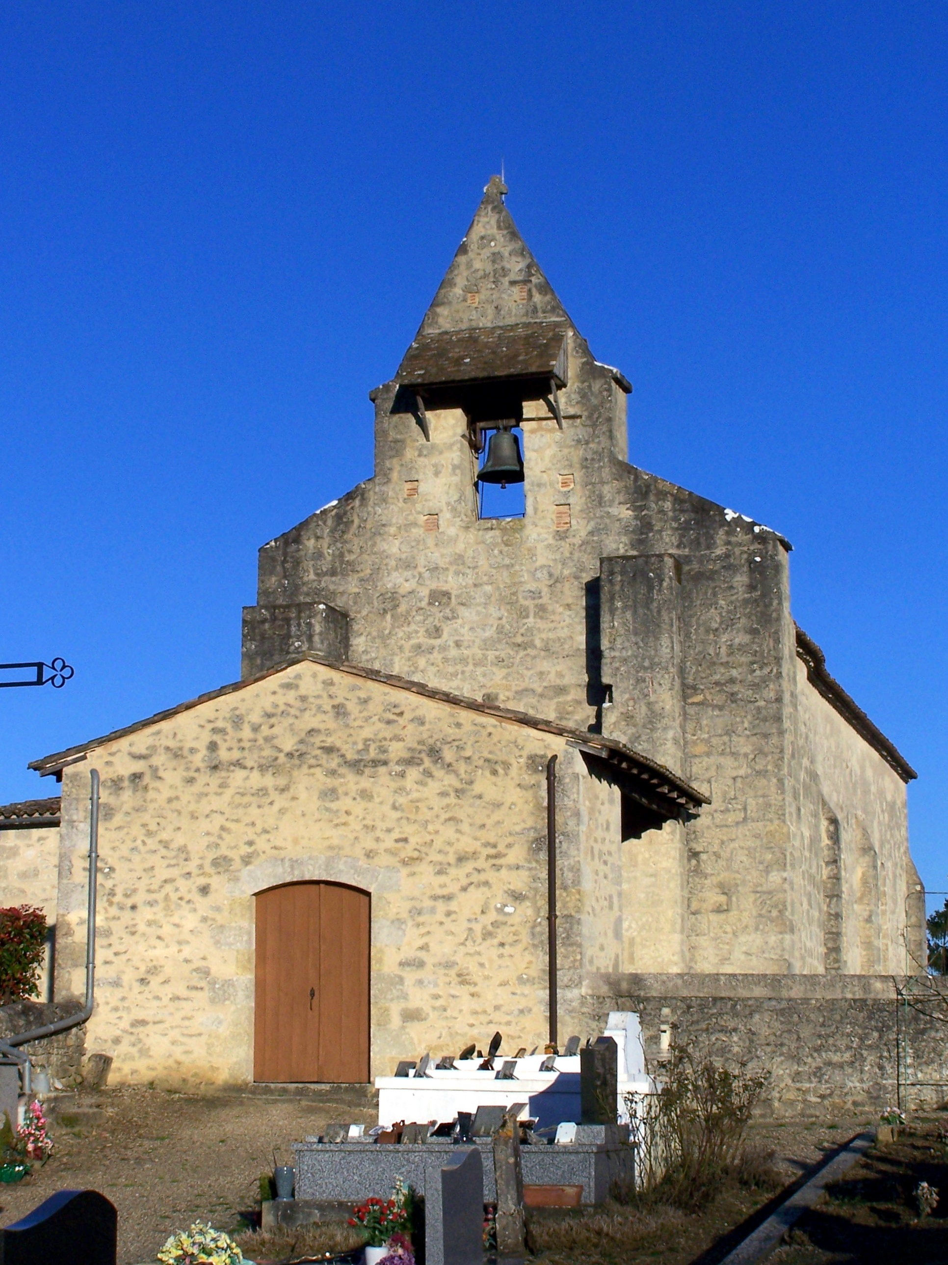 Church of Roquebrune (Gironde, France)